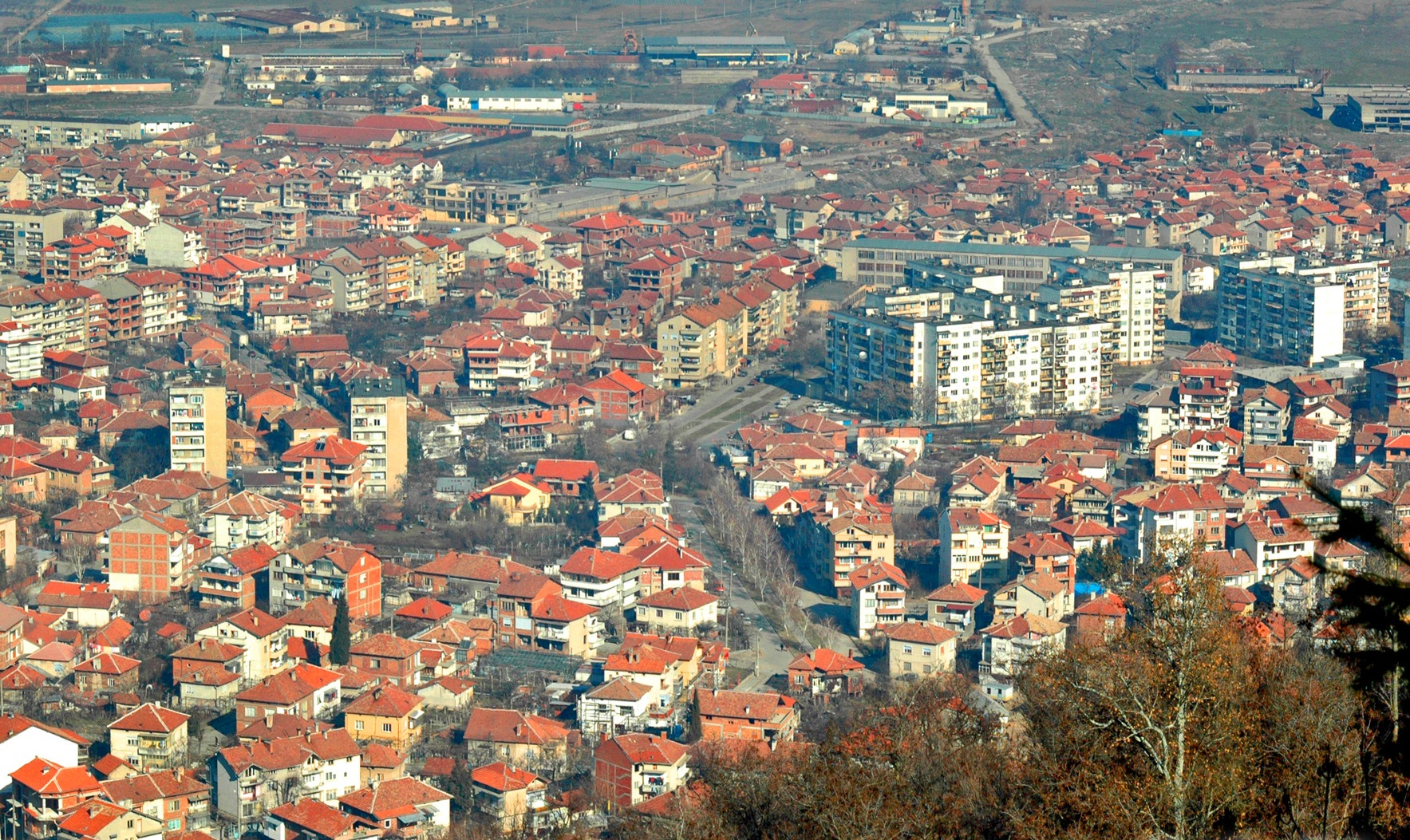 View from Petrich